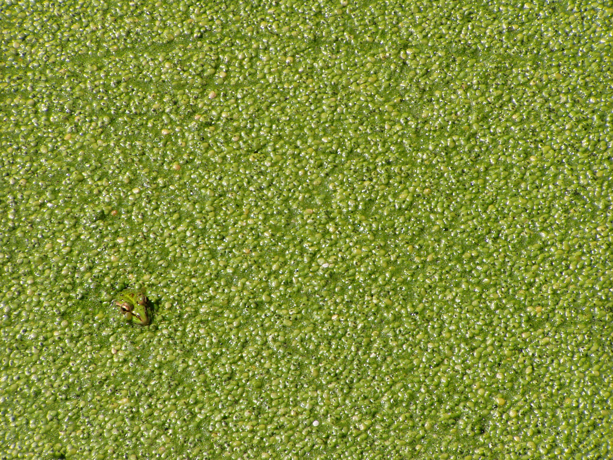 Iberian Water Frog